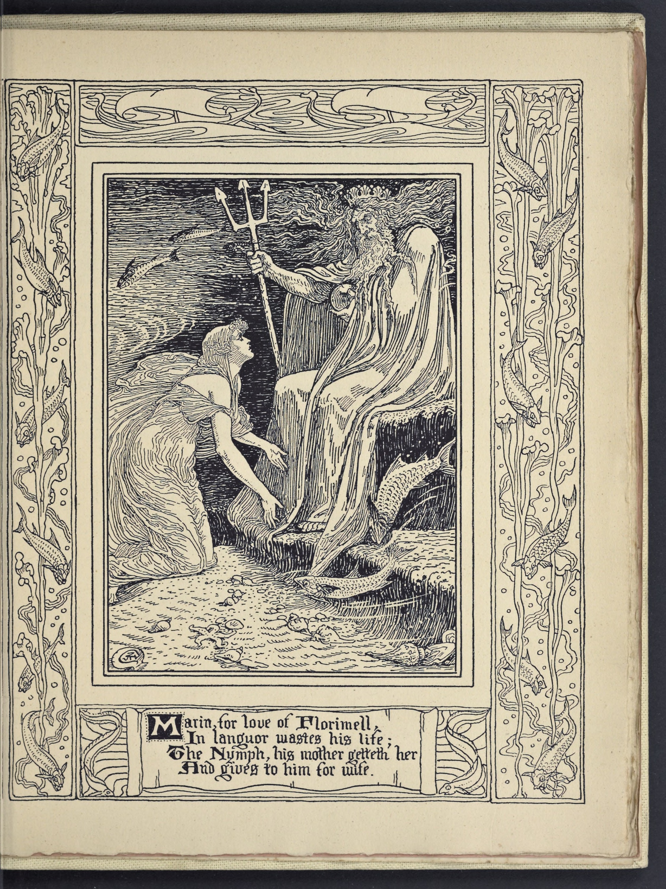 Title: Spenser's Faerie queene. A poem in six books; with the fragment Mutabilite Year: 1895 (1890s) Authors: Spenser, Edmund, 1552?-1599 Wise, Thomas James, 1859-1937 Crane, Walter, 1845-1915 Subjects: Publisher: London, G. Allen Text Appearing Before Image: ' Text Appearing After Image: '